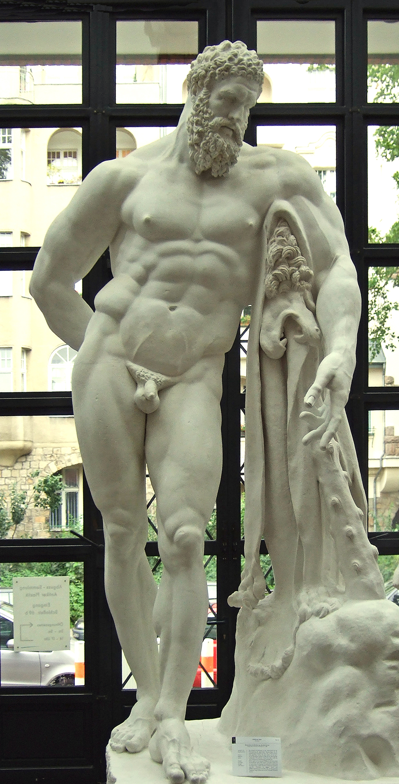 Plaster cast of the Farnese Hercules in the Abguss-Sammlung Antiker Plastik der Freien Universität Berlin -- resized version